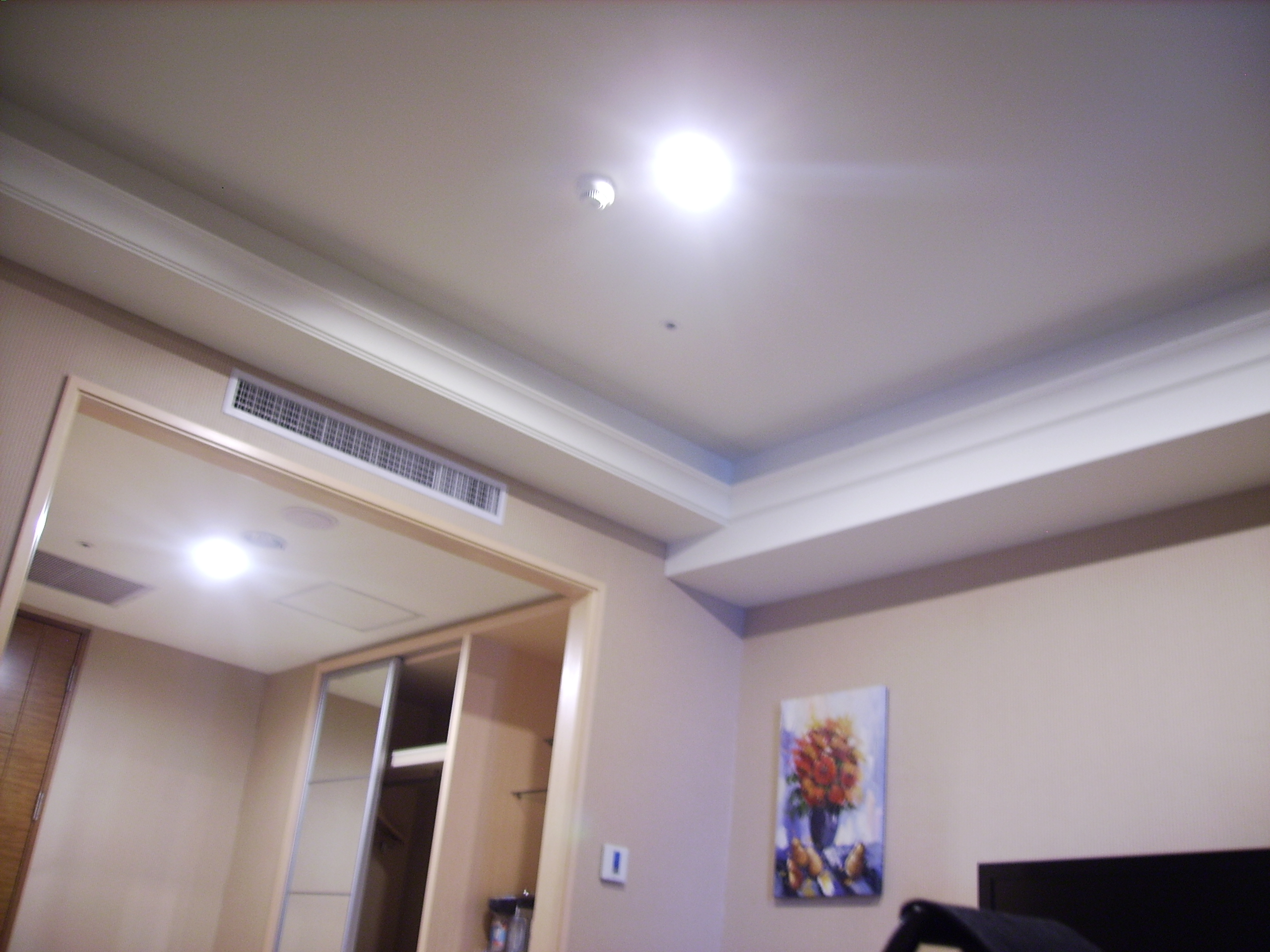 E-DA World 天悅房間-1